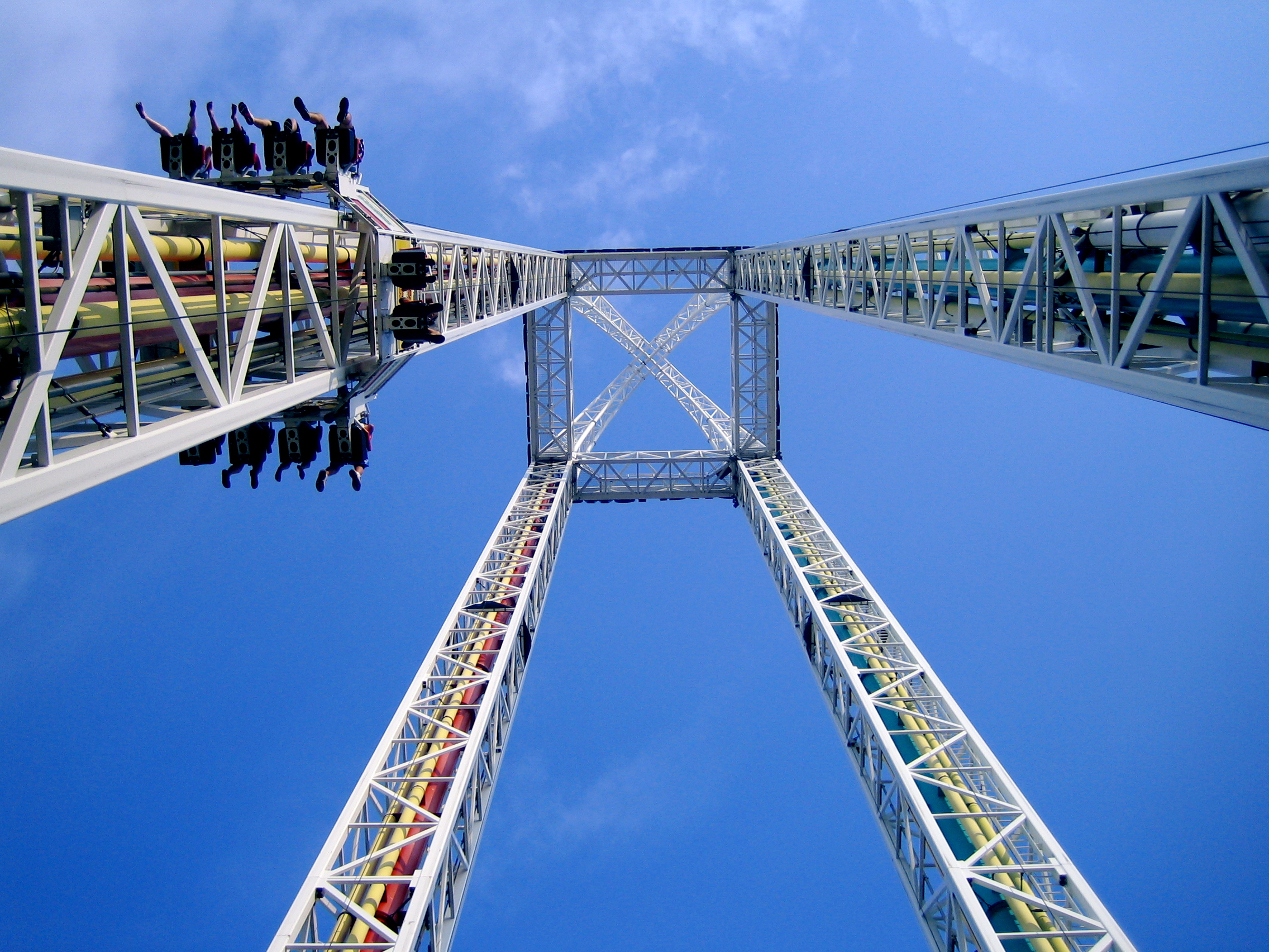 Cedar Point Power Tower from below. Sandusky, Ohio, USA.